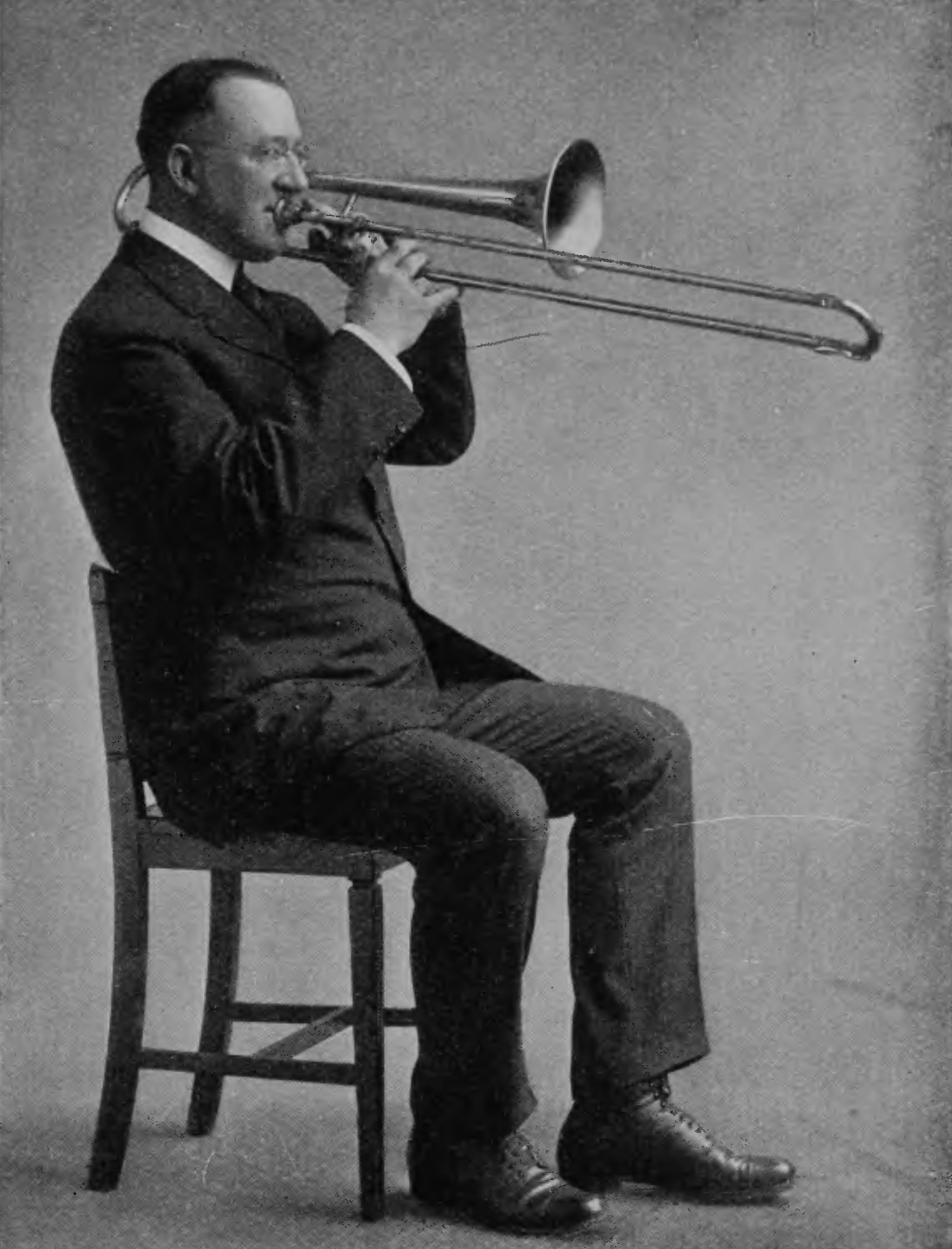 Fred. L. Blodgett N. Y. Symphony Orchestra